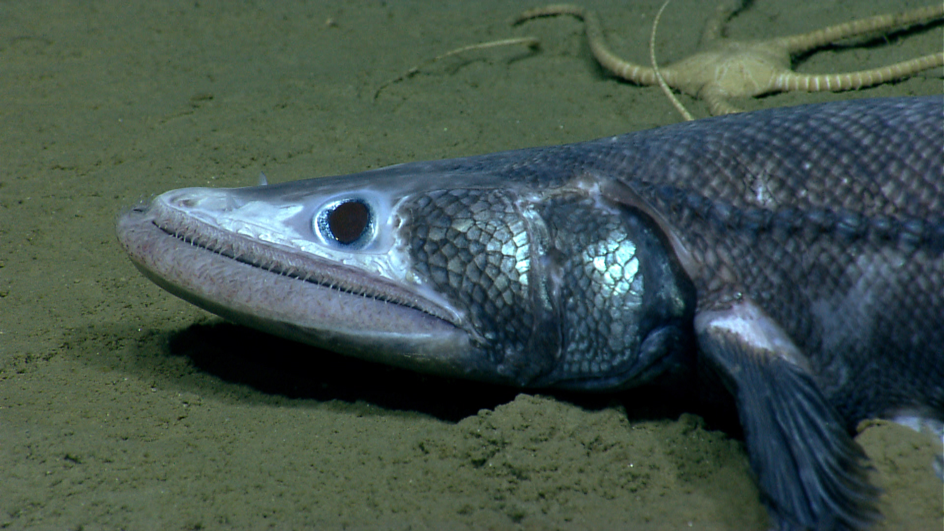 One of the stranger looking animals we came across in Veatch Canyon, a bathysaurus. These fish use their lower jaw to scoop in the sand.